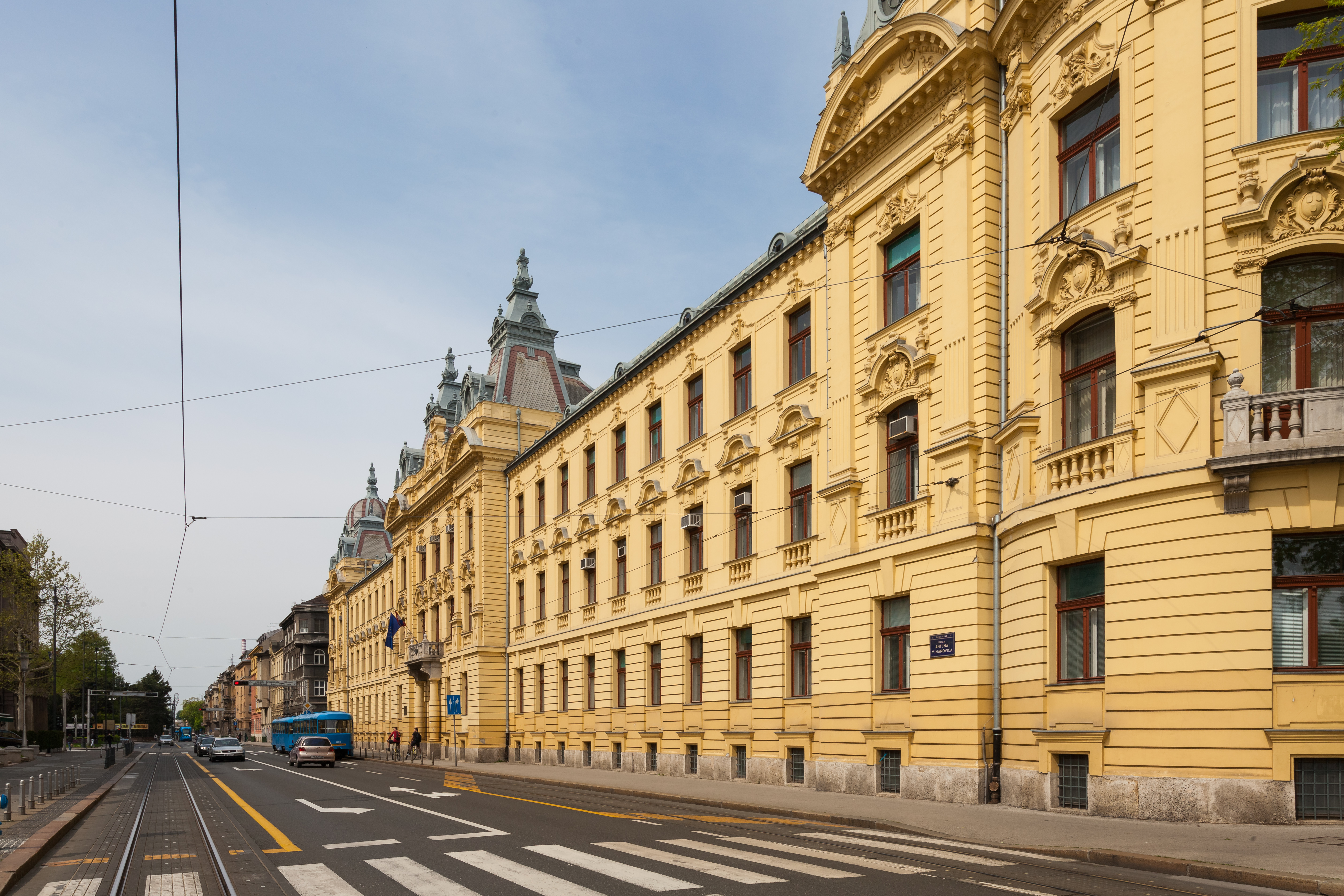 Antun Mihanovic Street, Zagreb, Croatia